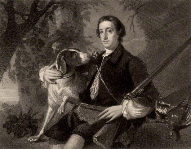 Mezzotint engraving of portrait of William Henry Fortescue, 1st Earl of Clermont (1722–1806) by Thomas Hudson (1701–1779). Original painting owned in 1864 by Thomas Fortescue, 1st Baron Clermont (1815–1887) (Source: Clermont, Lord (Thomas Fortescue), History of the Family of Fortescue in all its Branches, (first published 1869) 2nd edition London, 1880[1], image opposite p.211[2])